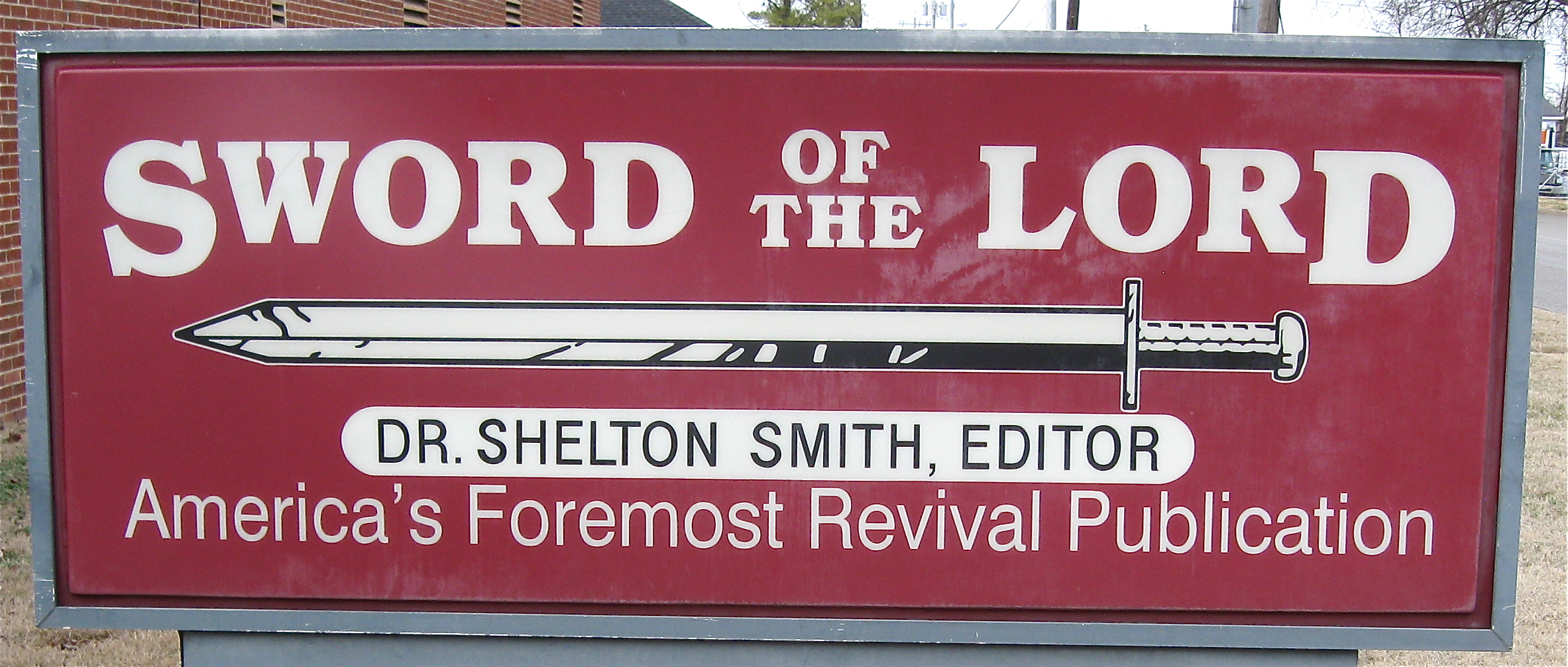 outdoor sign, Sword of the Lord (religious publisher), Murfreesboro, Tennessee, USA